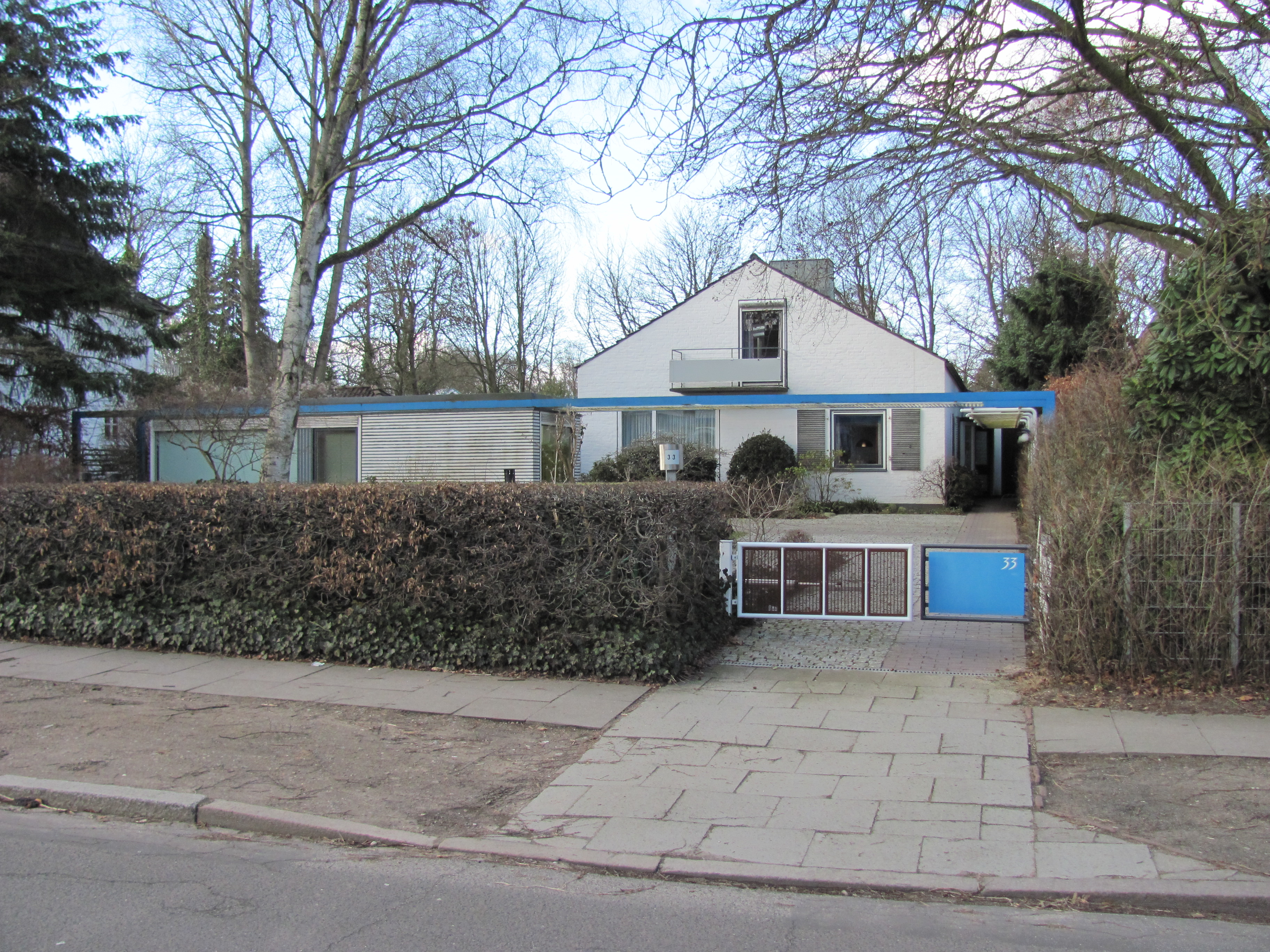 Building Nöpps 33 in Hamburg-Marienthal, Germany